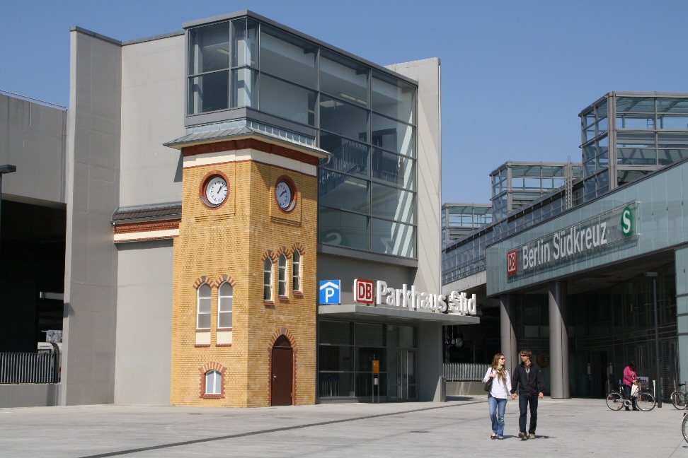 Rail station Berlin Südkreuz with parking garage